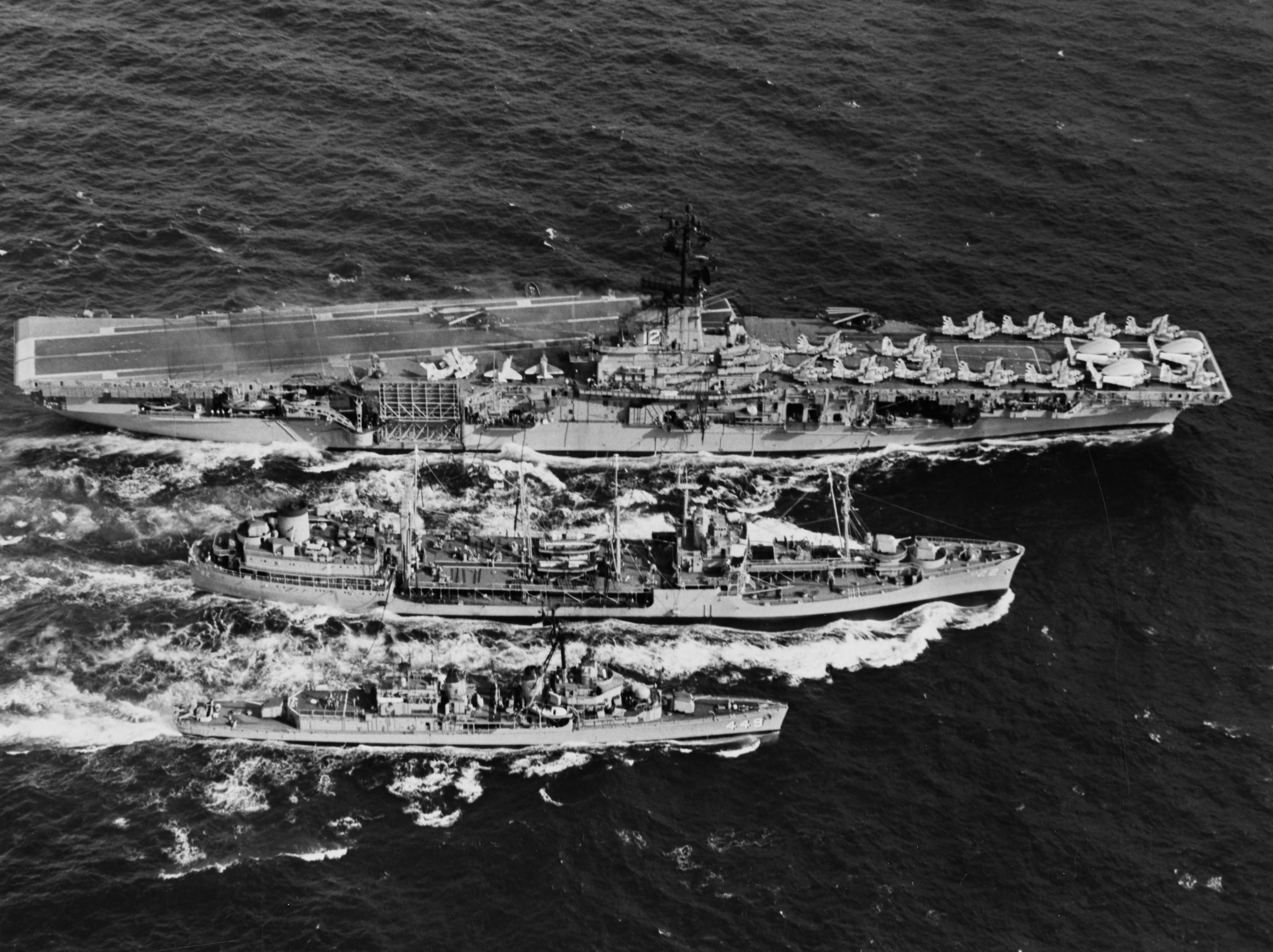 The U.S. anti-submarine aircraft carrier USS Hornet (CVS-12) and the destroyer USS Nicholas (DD-449), during underway replenishment from the fleet oiler USS Cimarron (AO-22) off the coast of North Vietnam, circa 1966. Hornet, with assigned Carrier Anti-Submarine Air Group 57 (CVSG-57), was deployed to the Western Pacific and Vietnam from 12 August 1965 to 23 March 1966.